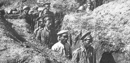 Bulgarian POWs after the battle of Skra di legen, Macedonian front